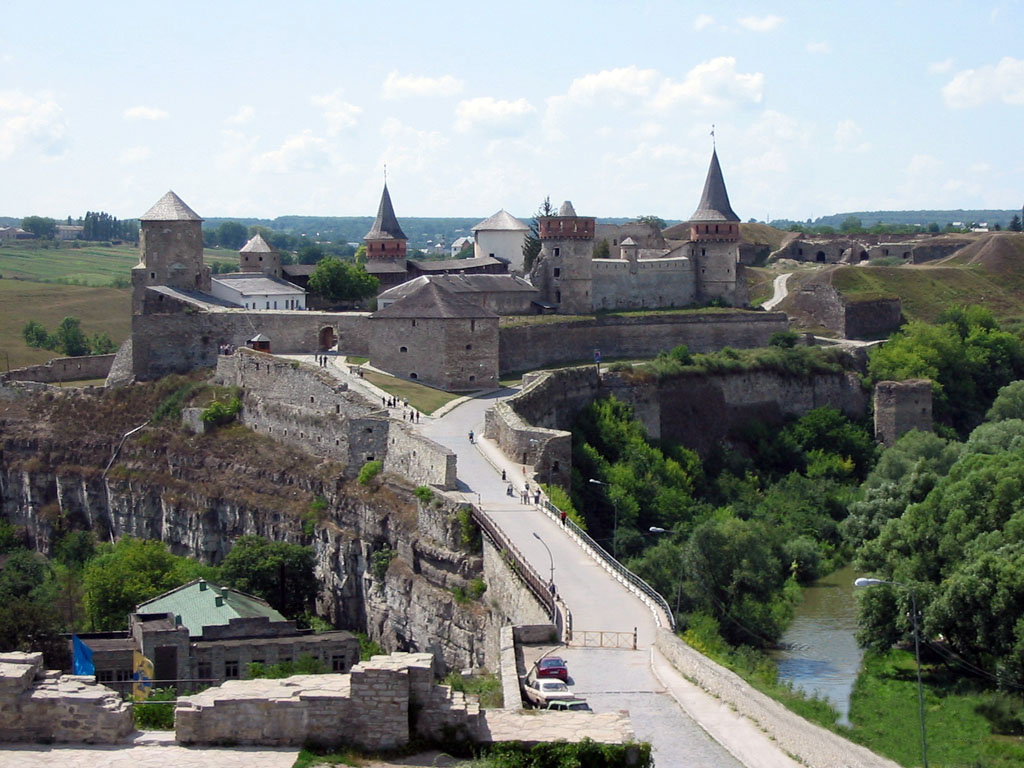 The view of the Old Fortress from the town's side. Kamianets-Podilskyi, Ukraine.